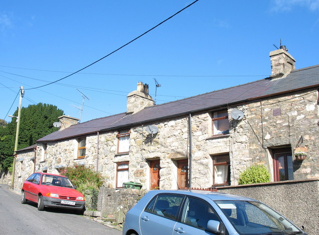 A Terrace of Cottages in a Llanaelhaearn Side Street